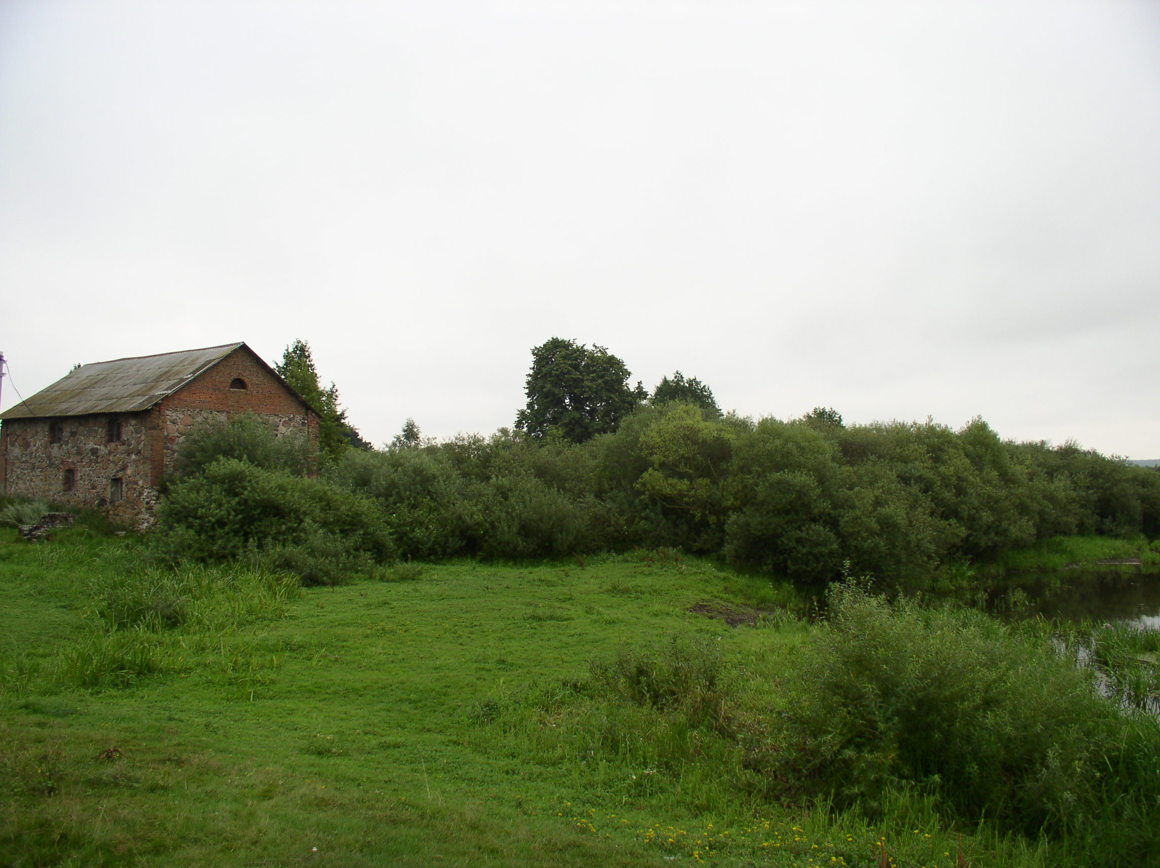 Watermill, Zhukaw Barok, Belarus.